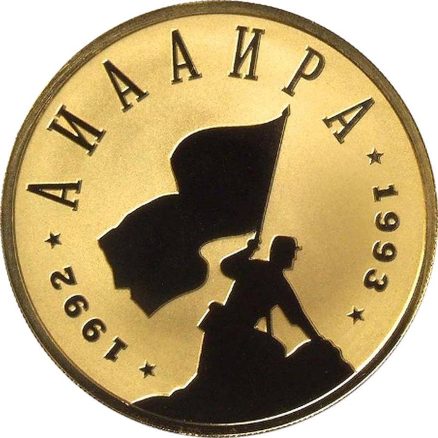 Coin «Aiaaira», 50 apsars, 2008, Au999, reverse